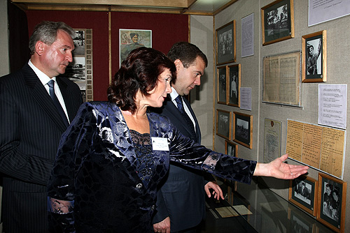 GAGARIN, SMOLENSK REGION. Visiting an exhibition in the Yuri Alexeyevich Gagarin Memorial Museum. Head of the museum’s memorial department and niece of Yuri Gagarin Tamara Filatova gives explanations. On the left, Governor of the Smolensk region Sergei Antufev.